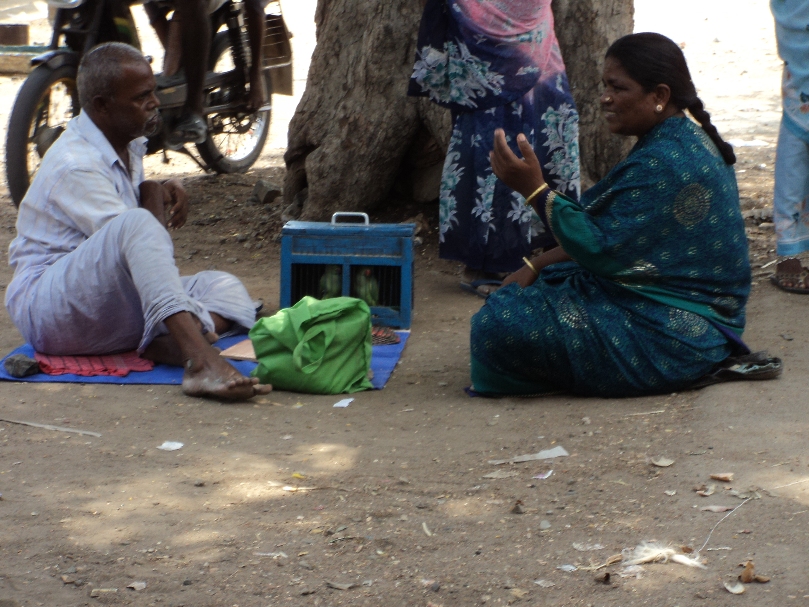 parrot astrology in rural Tamil Nadu